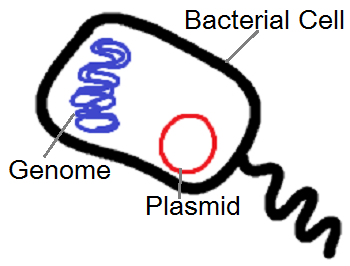 Simple image of a bacterial cell with a chromosome and plasmid.